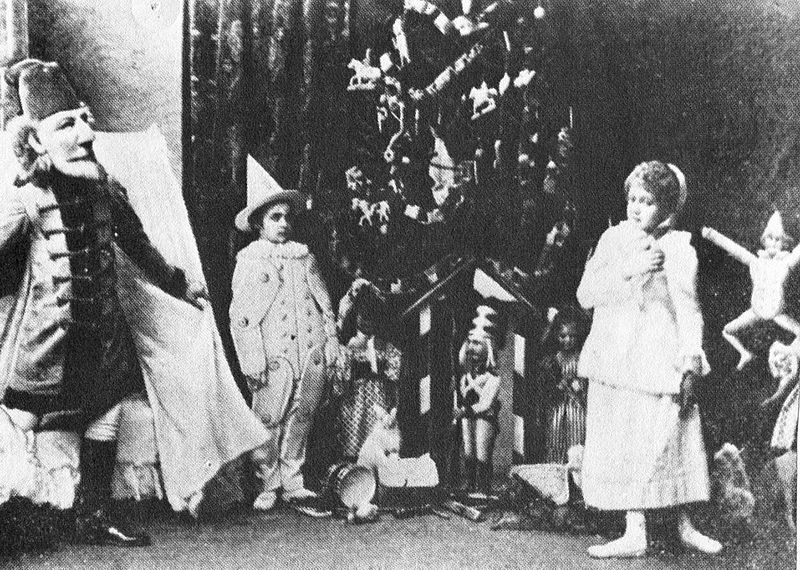 Photo of 1892 production of The Nutcracker in St Petersburg